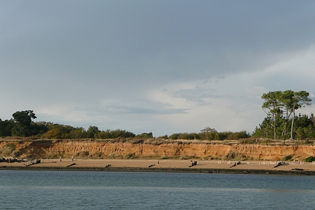 Lepe shoreline The low sandstone cliffs near Lepe House are particularly well seen from off shore, at the mouth of the Beaulieu River. The beach was film set in the Famous Five 77/78 TV serial version